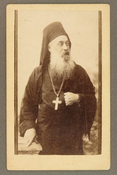 Bishop Theophan of Gornji Karlovci, Serbian Orthodox Church